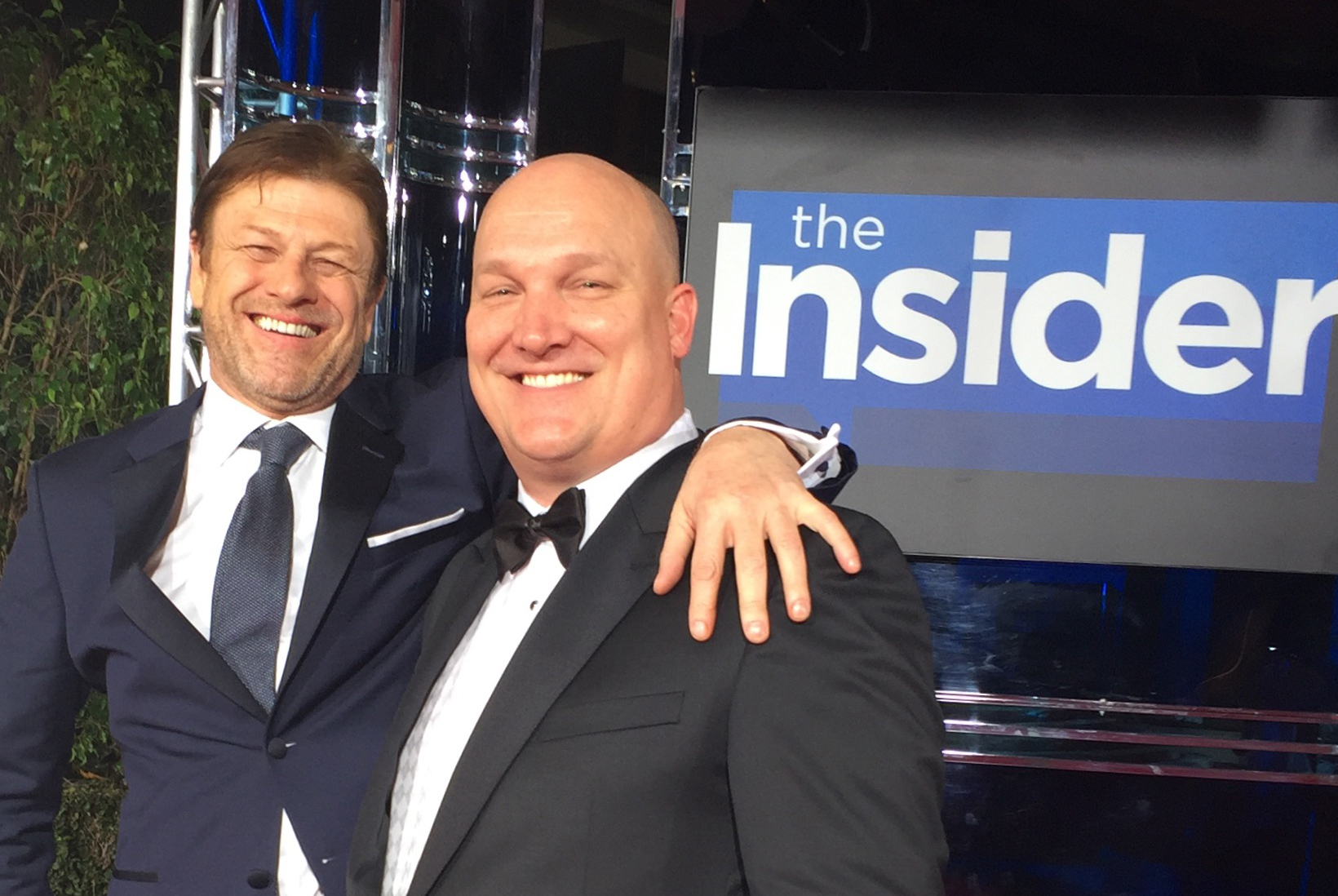 Doug Rowell with actor Sean Bean at the 2016 Golden Globes